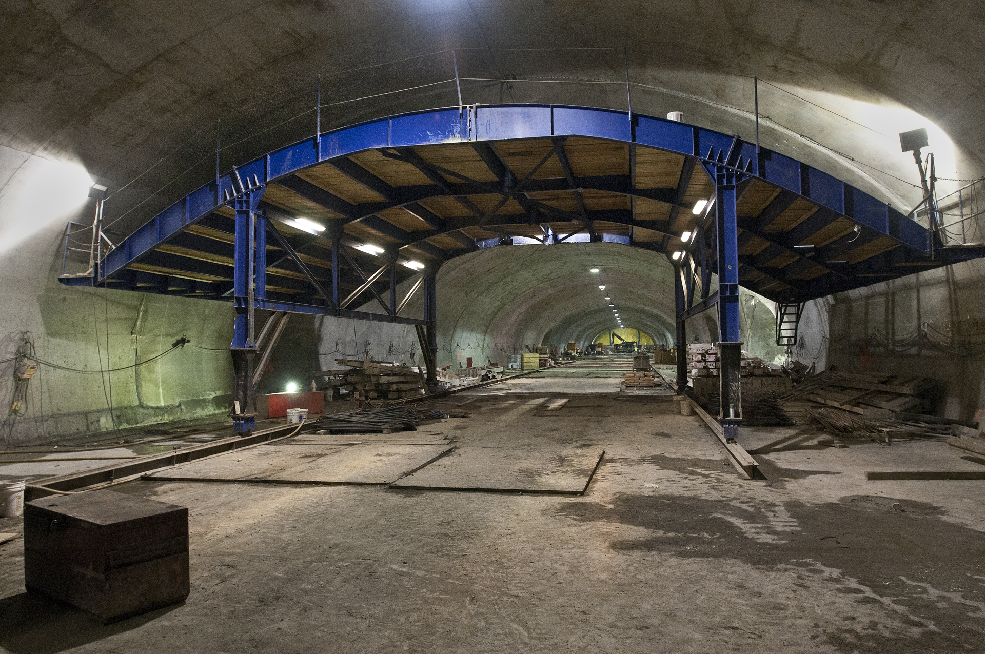 The mezzanine level of the future 34th Street Station under construction as of June 14, 2011. Photo by Metropolitan Transportation Authority / Patrick Cashin.